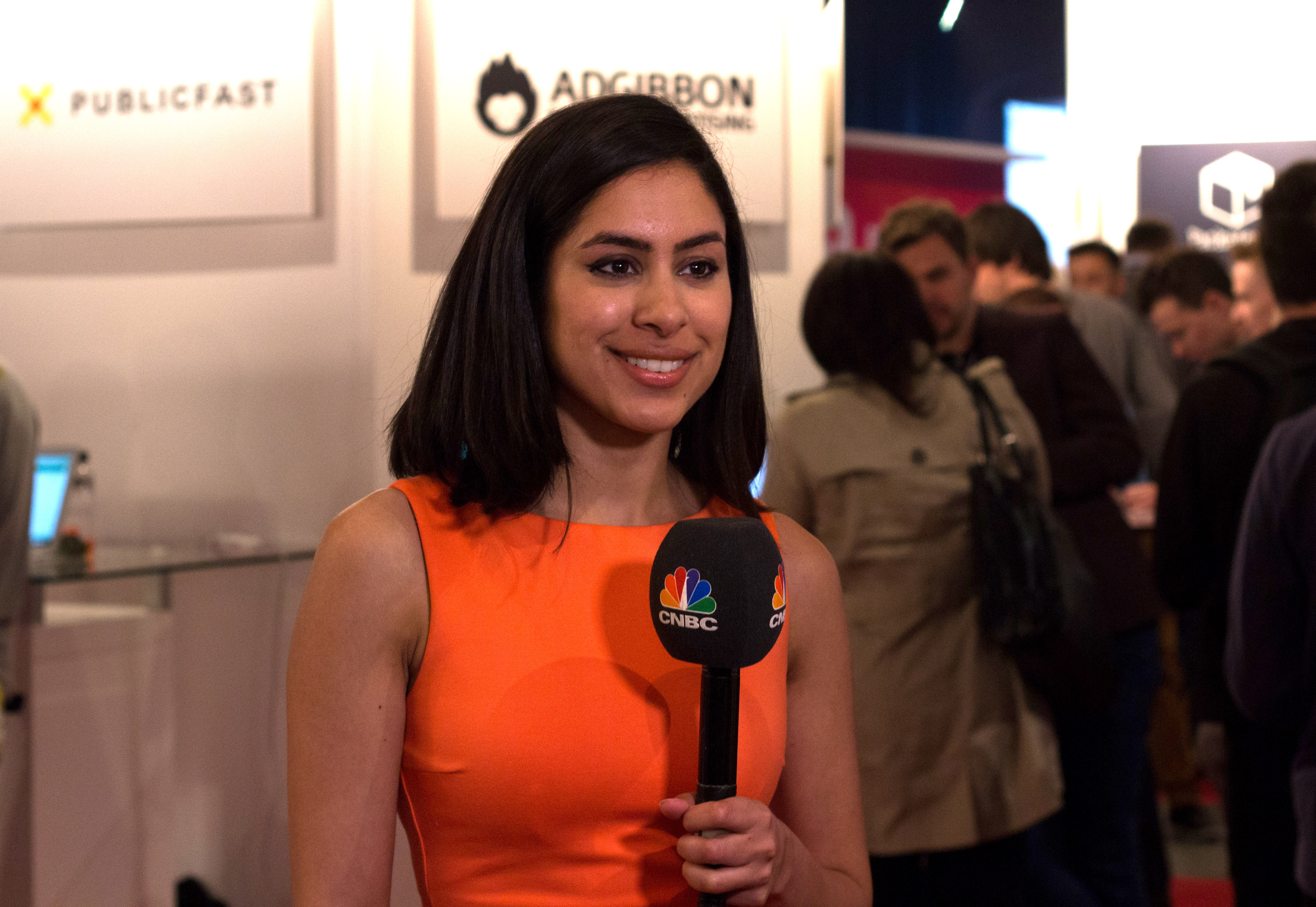 Seema Mody reporting from The Next Web conference